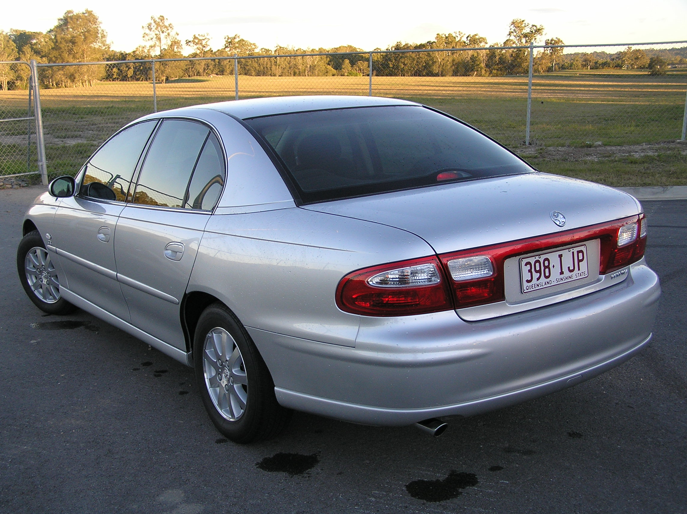 2001 Holden Berlina (VX) sedan. Photographed in Queensland, Australia.